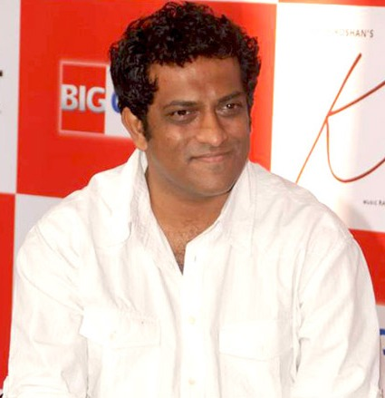 Bollywood film director Anurag Basu